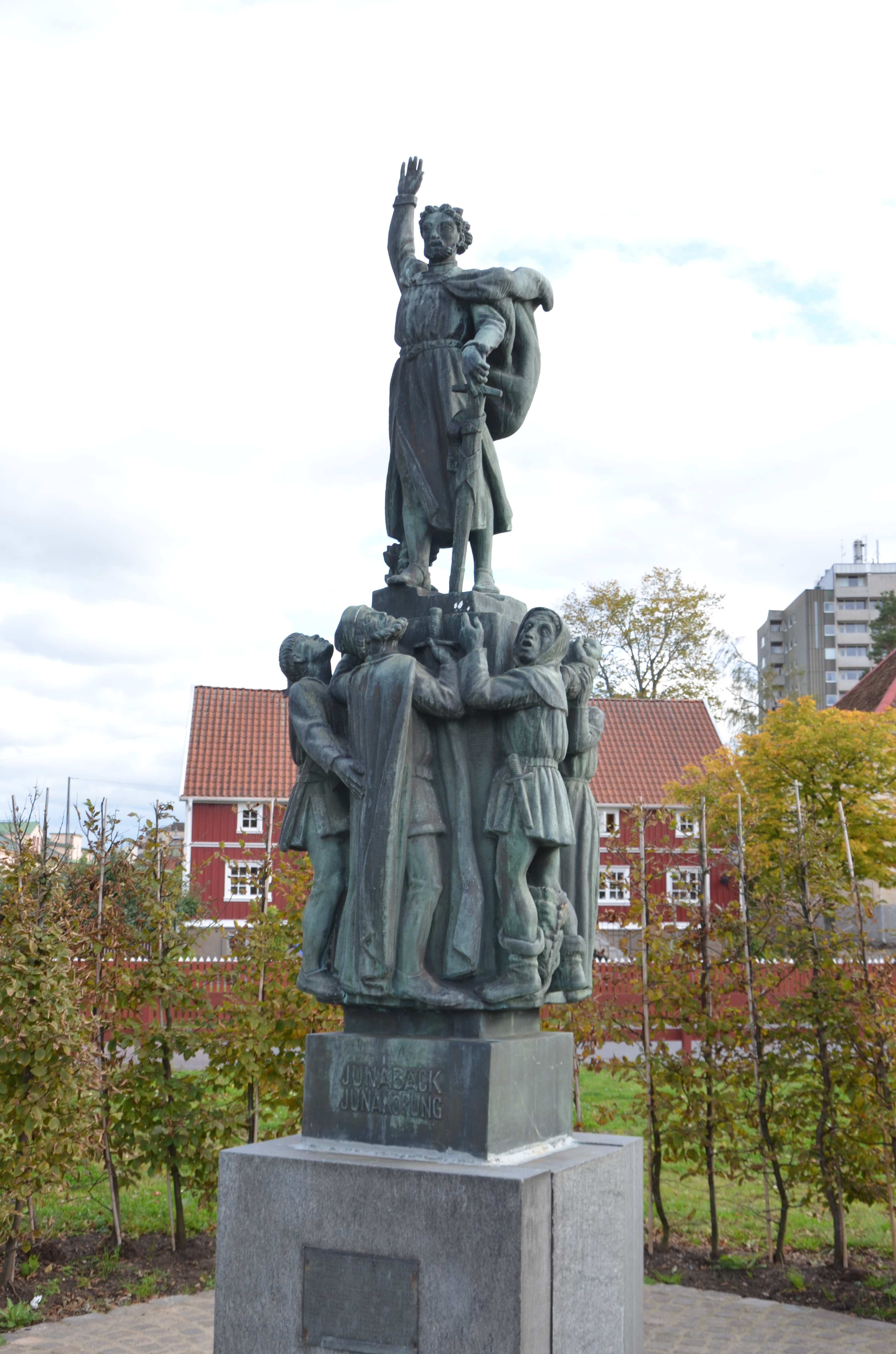 Junebäcksmonumentet i Jönköping, av John Lundkvist